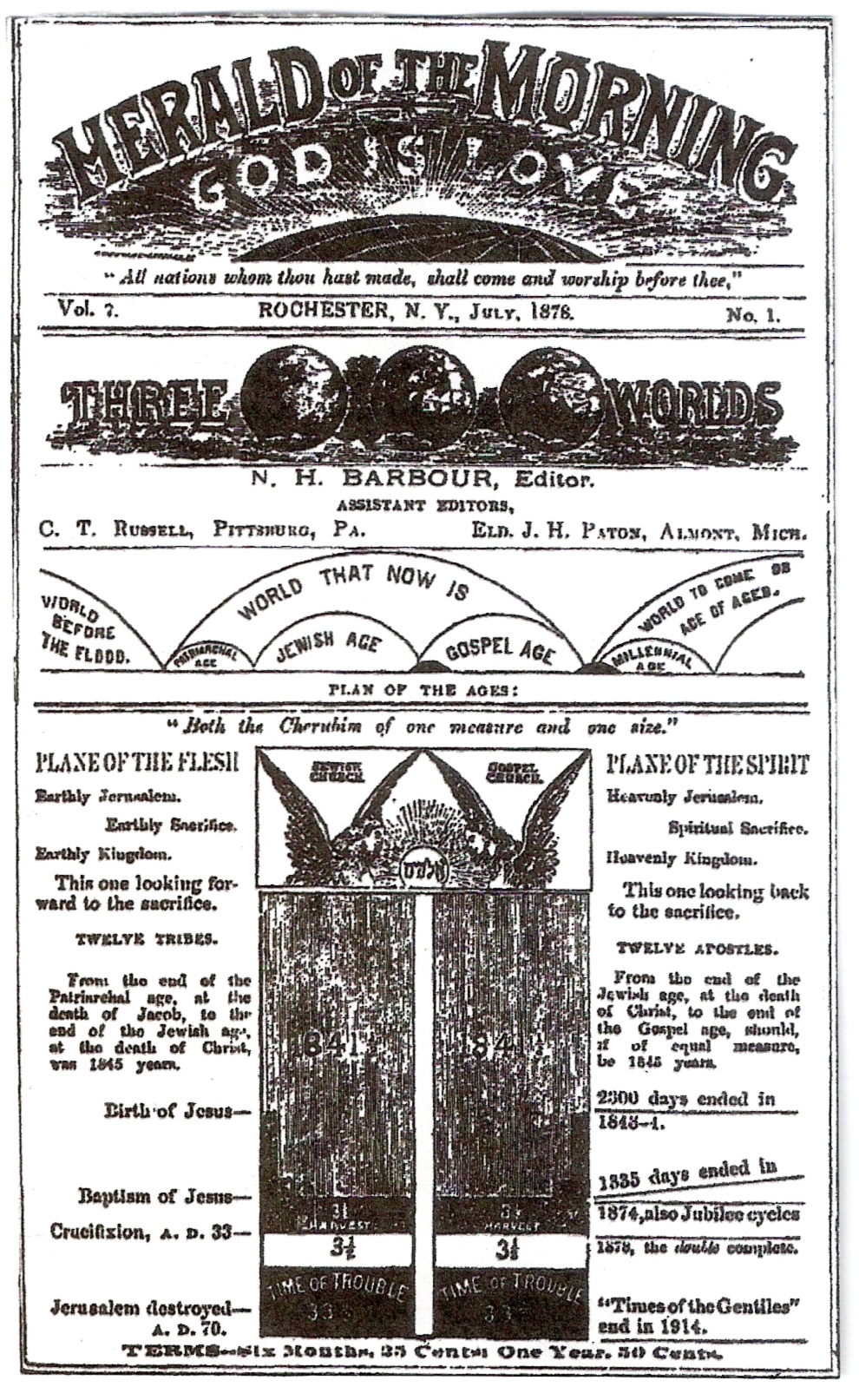 Herald of the Morning (religious magazine)